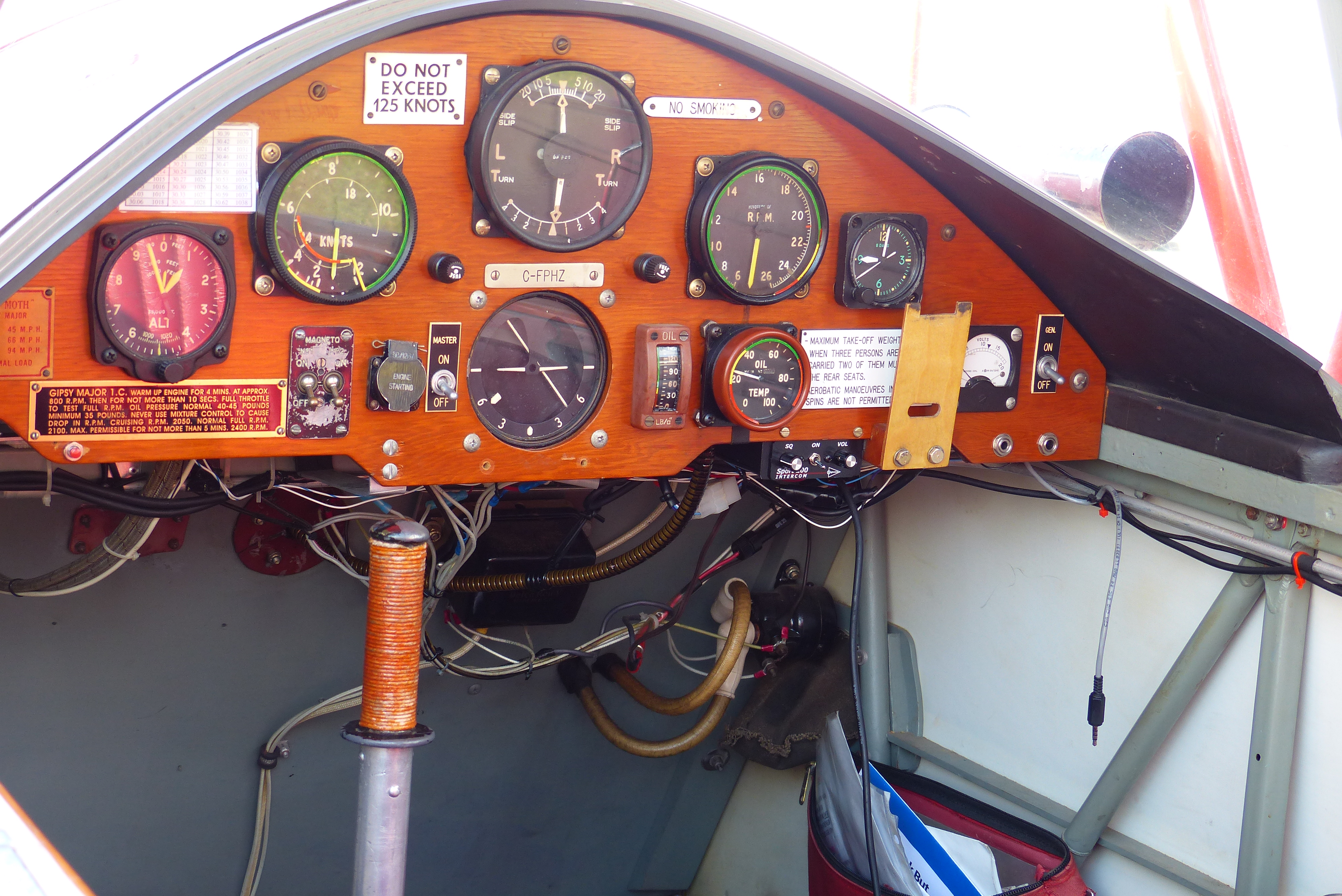 Inside the cockpit, forward seat, of C-FPHZ.